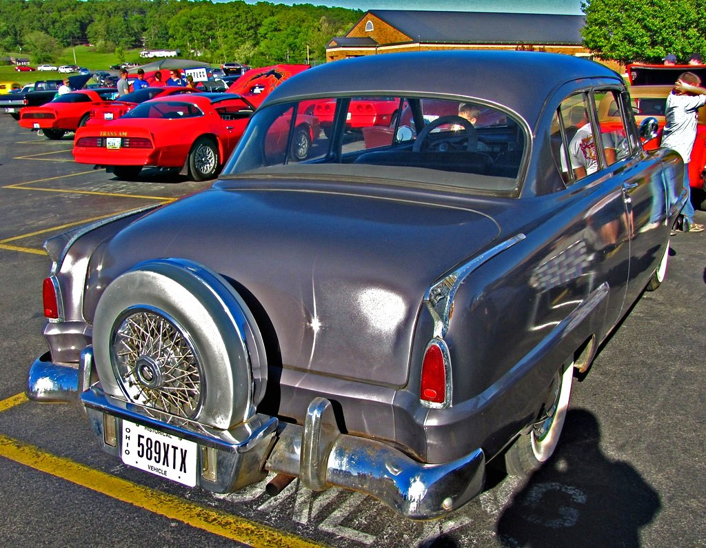 Northwest Elementary school in Scioto County, Ohio I invite viewers to brouse my collection "1952-2010 Car Shows and Cruise-ins"